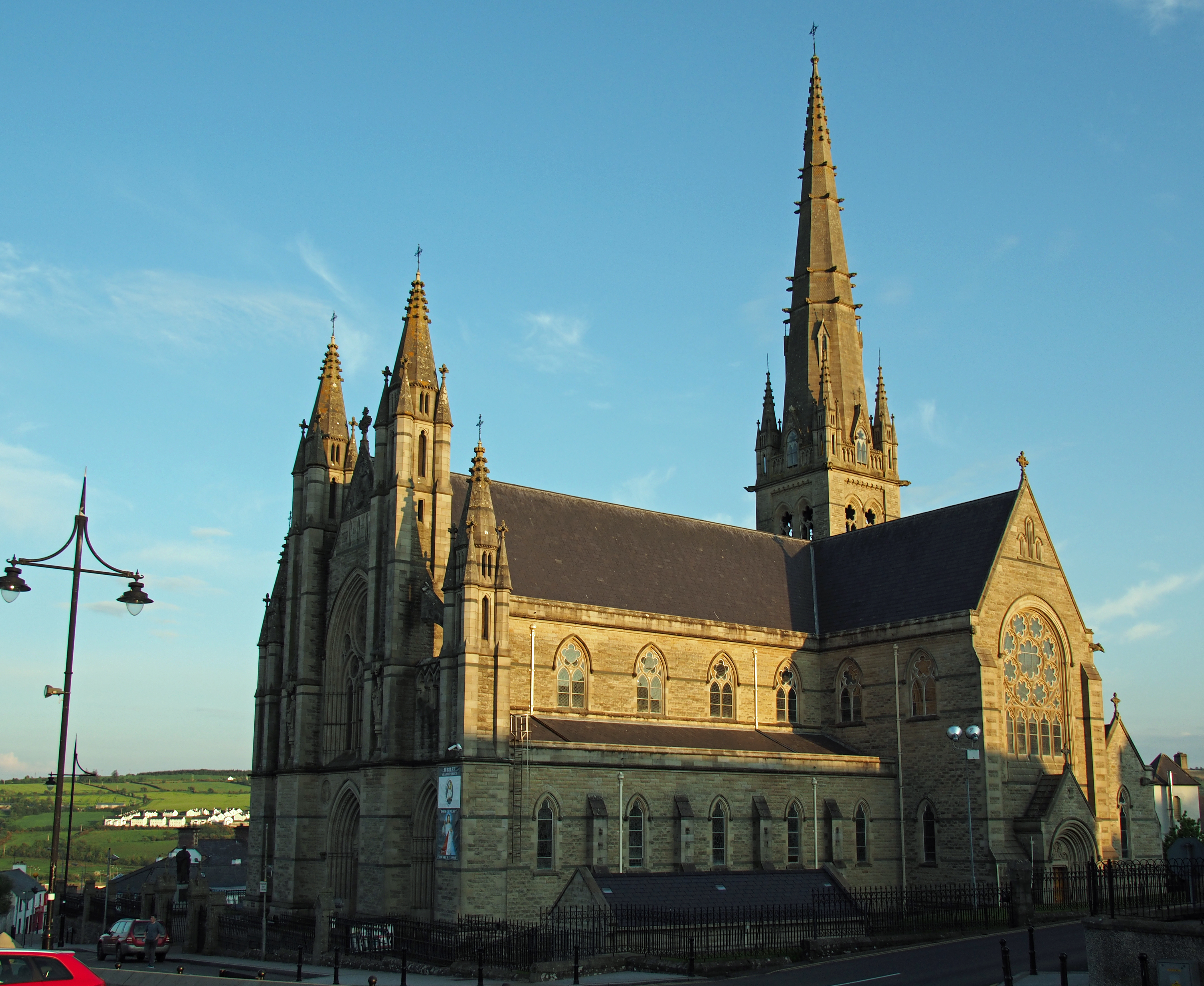 St Eunan's Cathedral, Letterkenny, Northern Ireland.